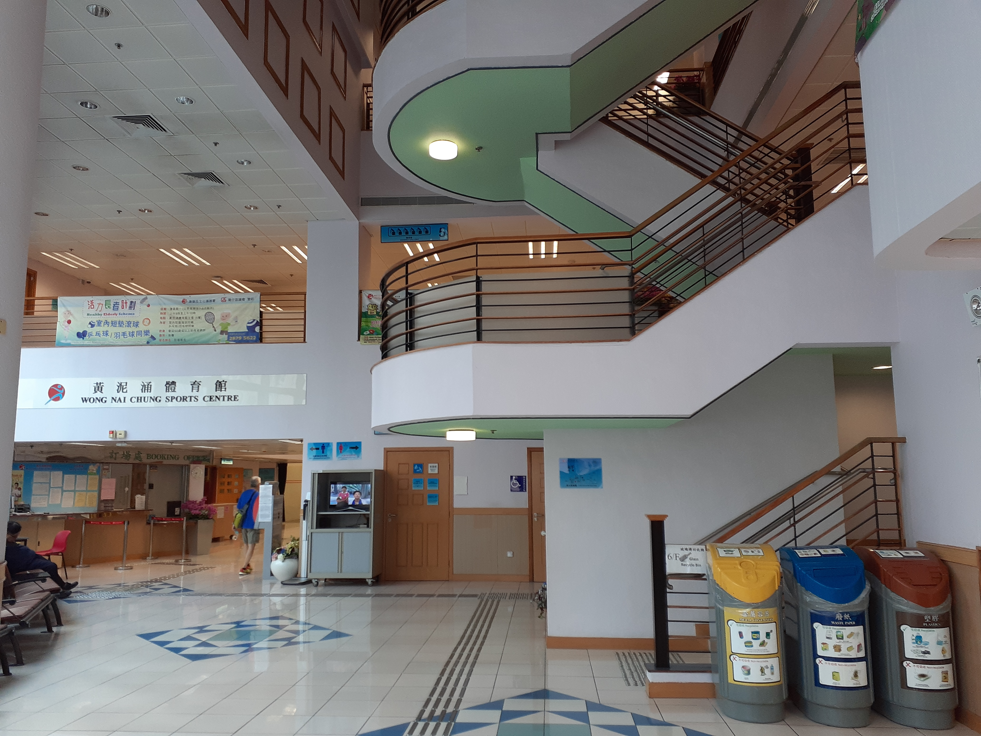 HK HV 跑馬地 Happy Valley 成和道 Shing Woo Road 黃泥涌市政大廈 Wong Nai Chung Municipal Services Building Sports Centre in October 2019